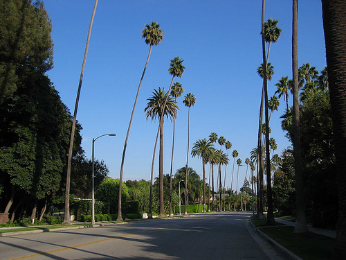 Sunset Boulevard in Beverly Hills, California.